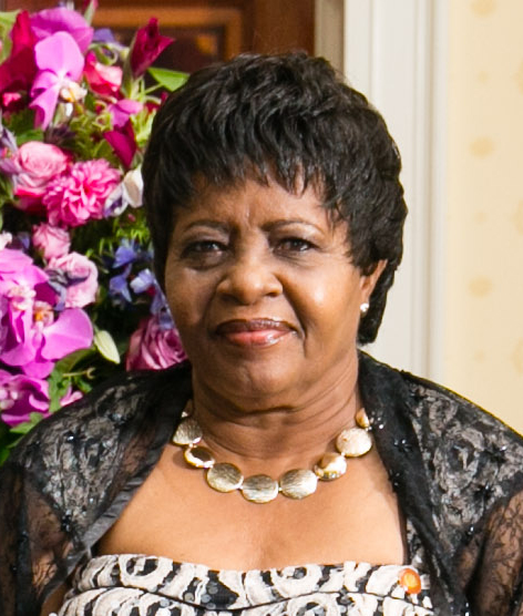 Penehupifo Pohamba, former First Lady of Namibia, in the Blue Room during a U.S.-Africa Leaders Summit dinner at the White House, Aug. 5, 2014. (Official White House Photo by Amanda Lucidon)